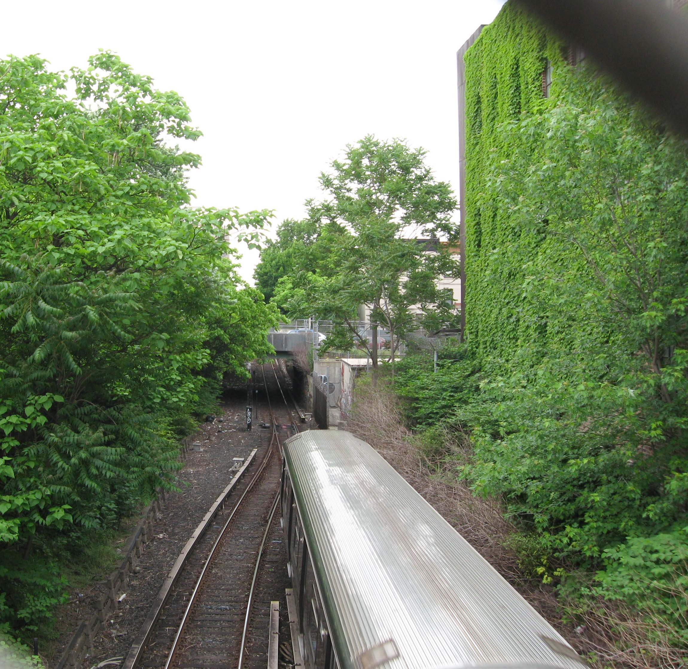 R68 train northbound towards Fulton Street away from camera on a partly cloudy afternoon